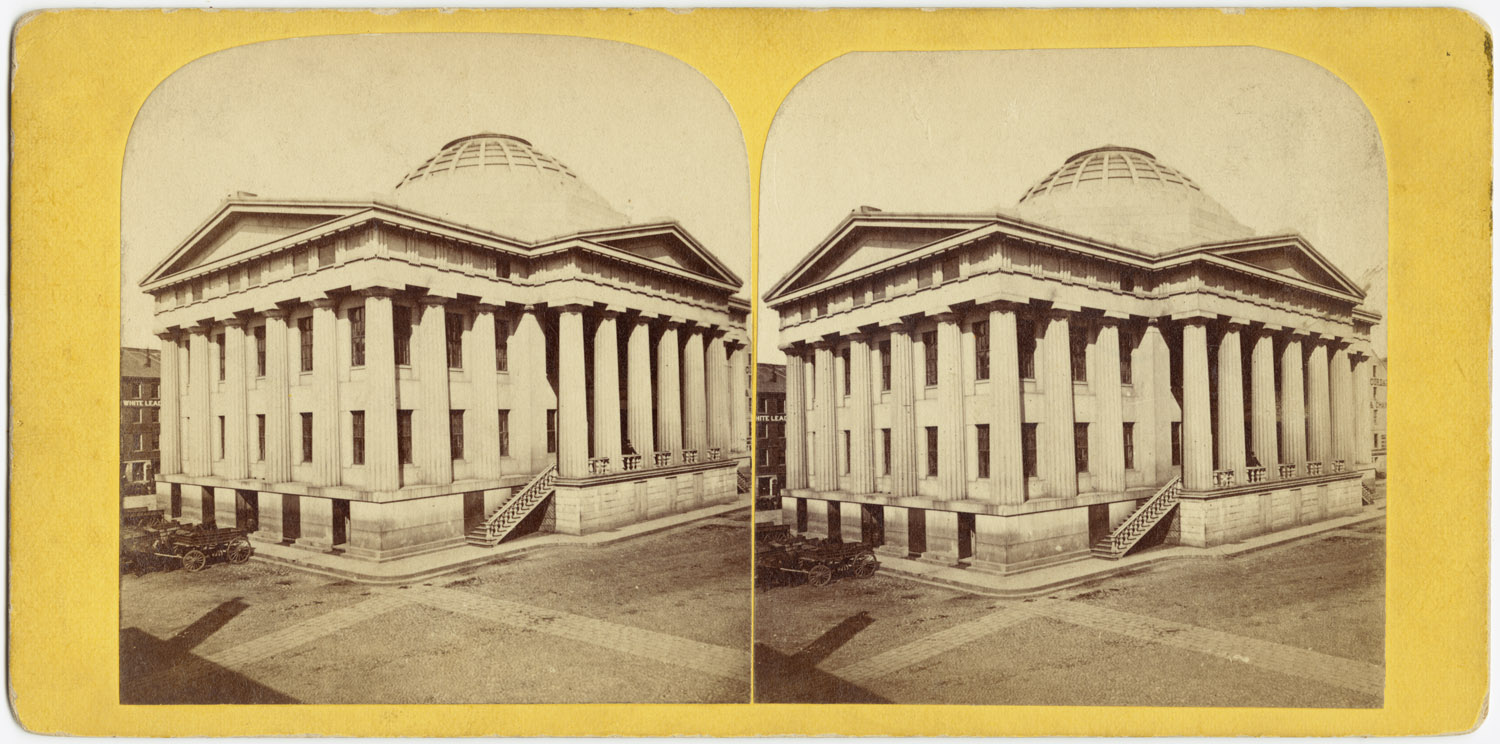 Accession No.: 06_11_000076 Title: Custom House Local Subject: Commercial Buildings Subject: Boston (Mass.) Format: Sterographs BPL Department: Print Flickr data on 2011-08-05: Camera: Epson Exp10000XL10000 Tags: bpl, boston public library, public domain, stereograph, stereoscopic, dc:identifier=06_11_000076 License: CC BY 2.0 User: Boston Public Library BPL